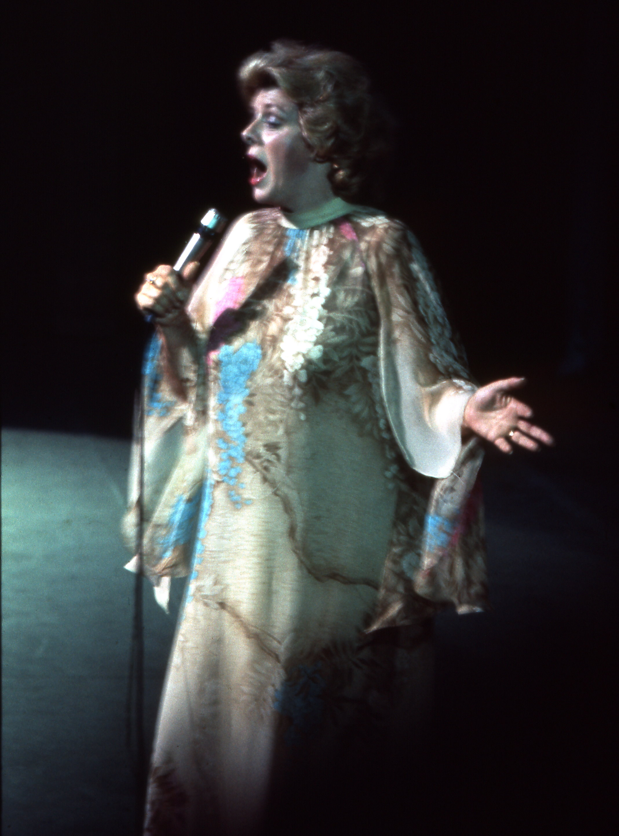 Portrait of Rosemary Clooney performing